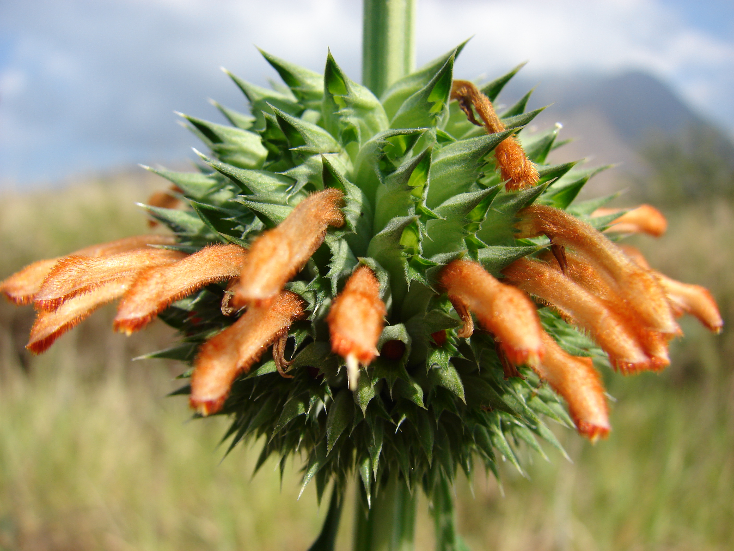 Leonotis nepetifolia (Lion's ear) Flowers at Olowalu, Maui, Hawaii. February 06, 2007 [ #070206-4151 - Image Use Policy